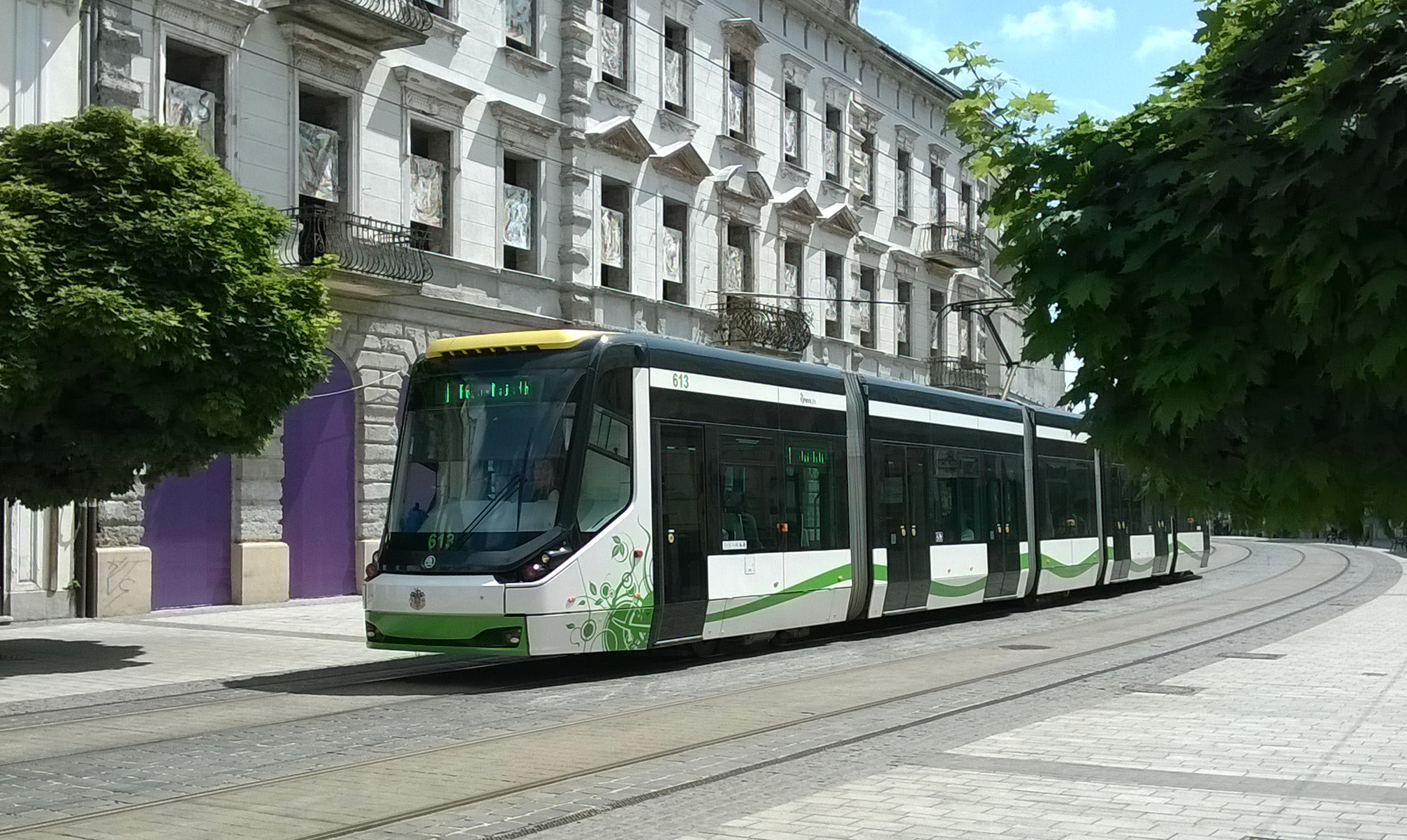 Škoda tram in Miskolc, Hungary, 2015